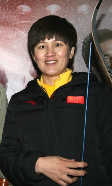 Archer Zhang Juanjuan poses in China in January 2015 at an archery exhibition.